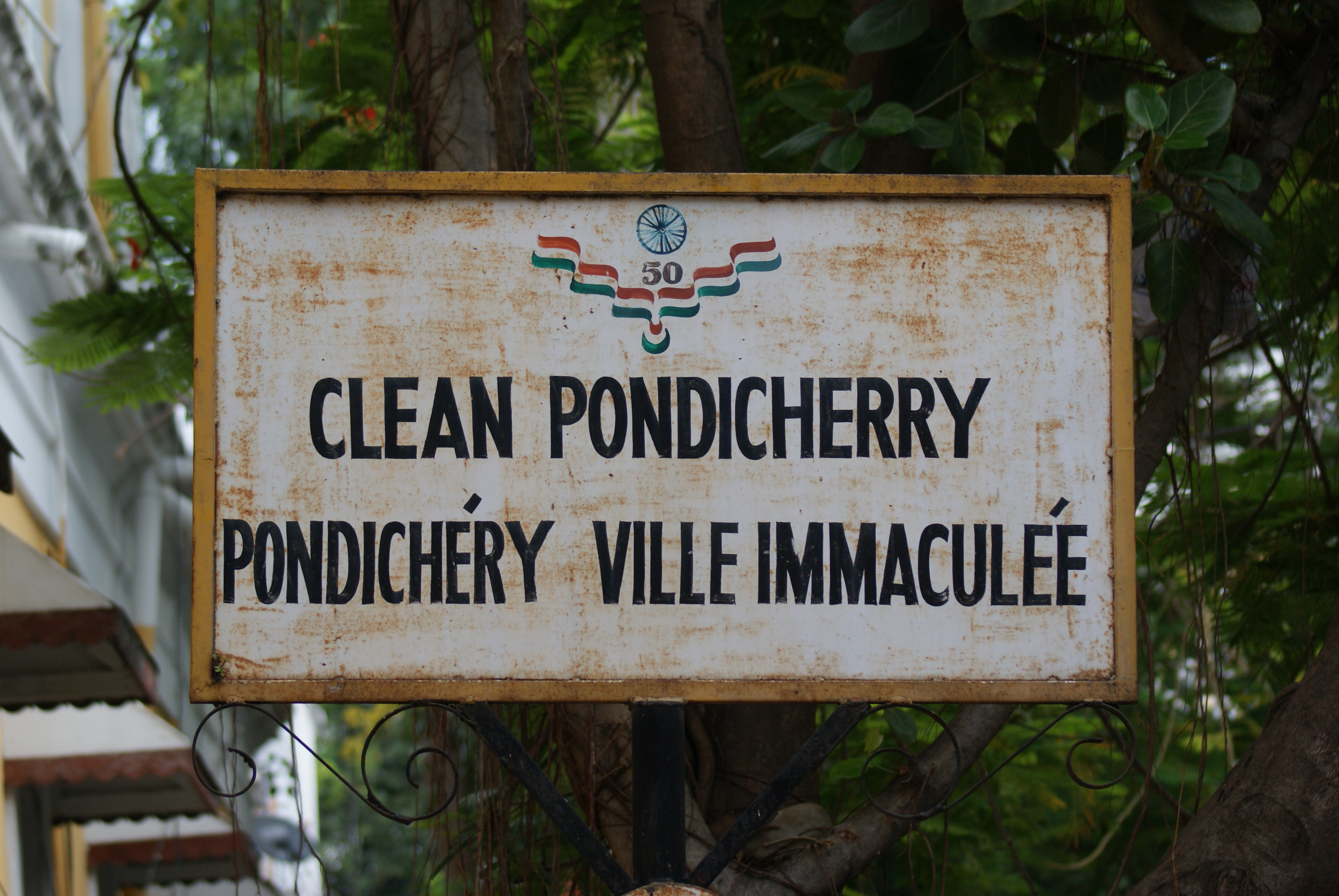 Bilingual (English/French) road sign in Puducherry (Pondicherry)